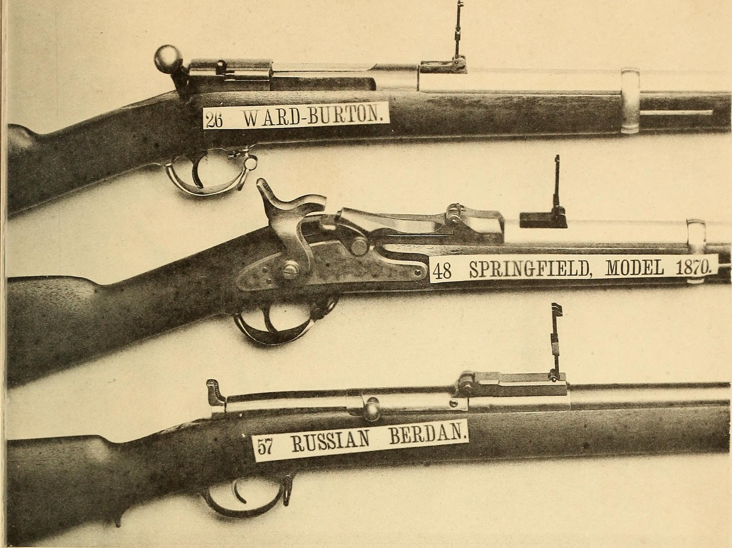 breechloaders Ward-Burton musket, caliber. 50 Springfield Model 1870 musket Russian Berdan Title: Report of the Board of officers appointed in pursuance of the act of Congress approved June 6, 1872, for the purpose of selecting a breech-system for the muskets and carbines of the military service, together with their report upon the subject of trowel-bayonets; Year: 1873 (1870s) Authors: United States. Board on Breech-loading Small-arms United States. Army. Ordnance Dept Subjects: United States. Army Firearms Bayonets Publisher: Washington, Govt. Print. Off. Text Appearing Before Image: ' Text Appearing After Image: '